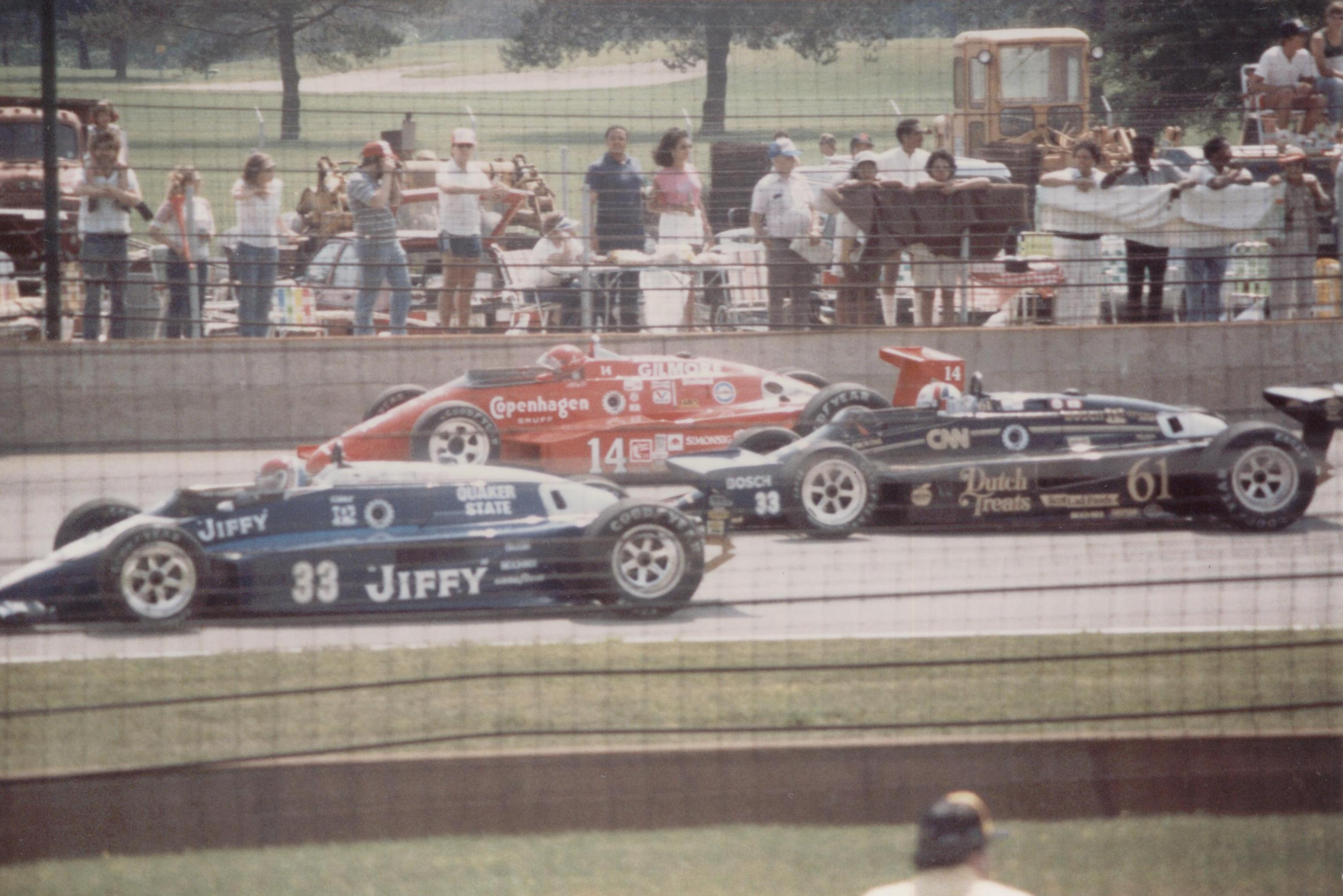 Seventh row for the 1985 Indianapolis 500. (L to R) A.J. Foyt, Arie Luyendyk, Howdy Holmes